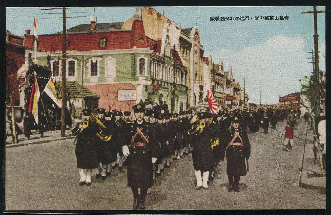 Japanese troops on Tsingtao